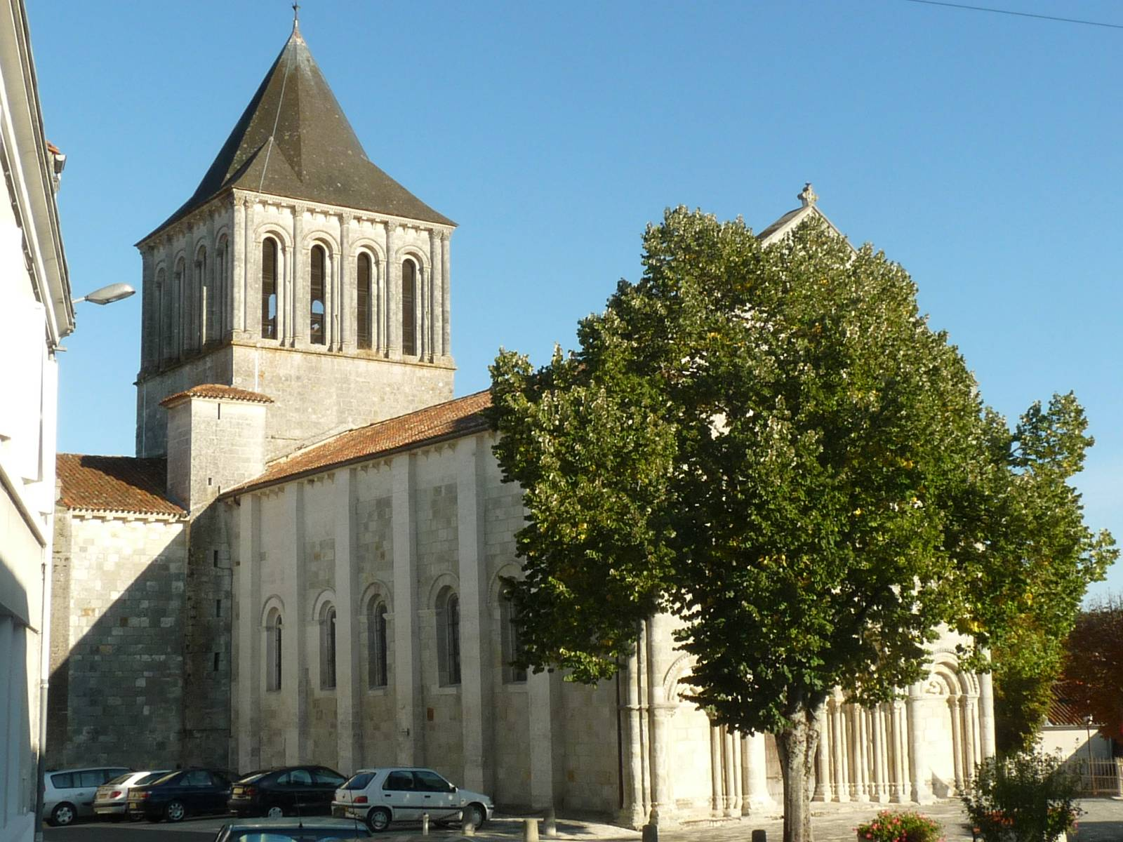 church of Montmoreau, Charente, SW France